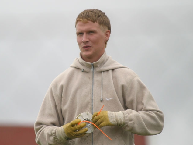 Gunni the botanist